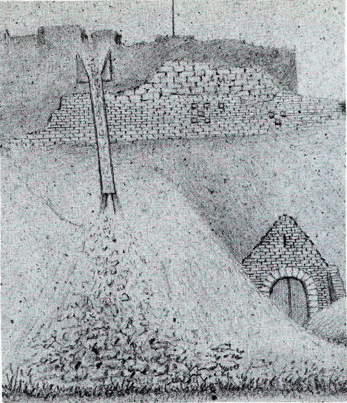 Demolition of the second Medieval city wall of Maastricht, the Netherlands, near the cavalier Hoog Frankrijk. Drawing by Jan Nicolaas Brabant, around 1870.